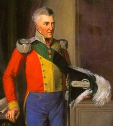 King Anthony of Saxony (1755-1836)